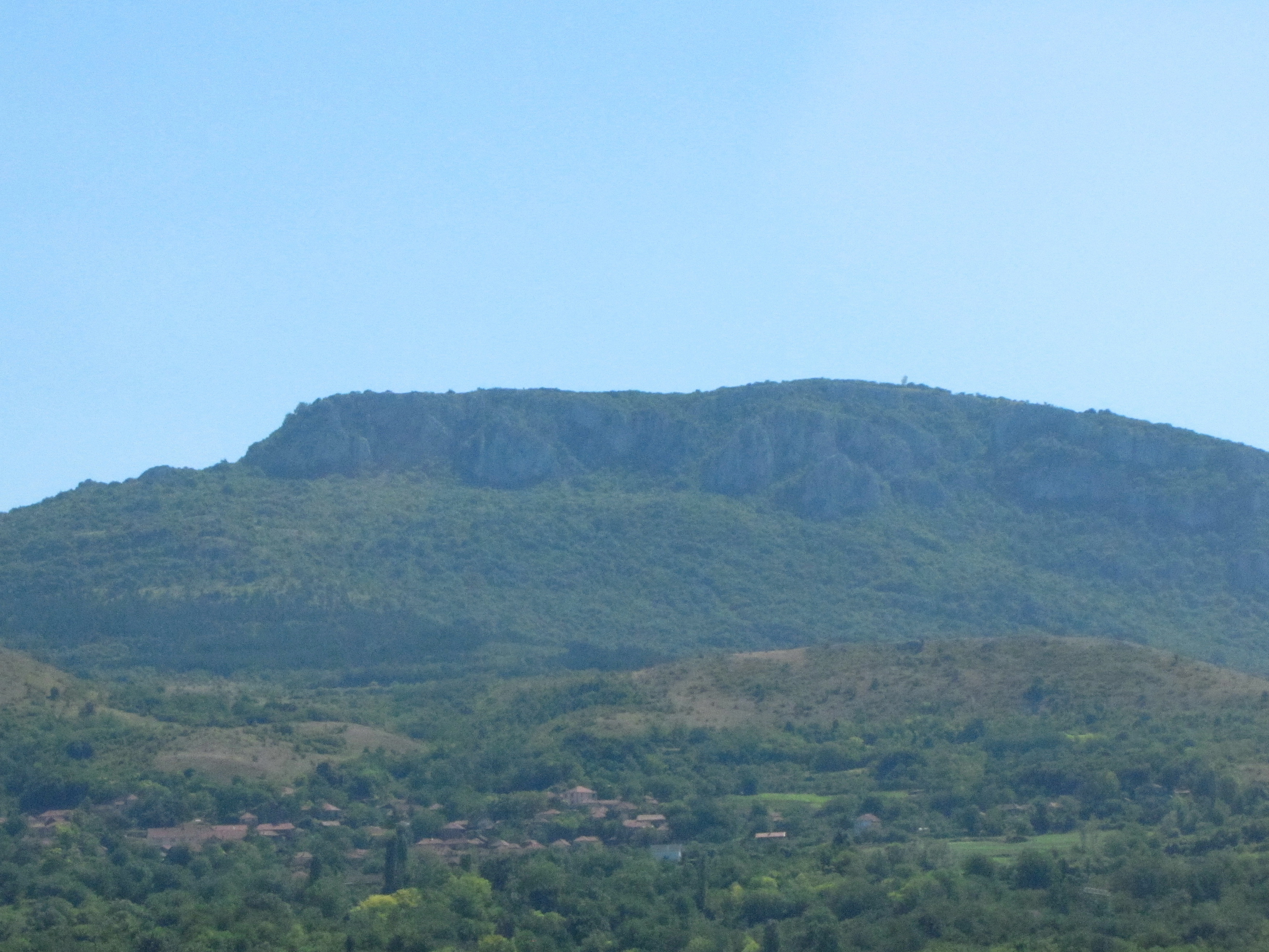 Peak Višegrad (Svrljig Mountains, Central Serbia).